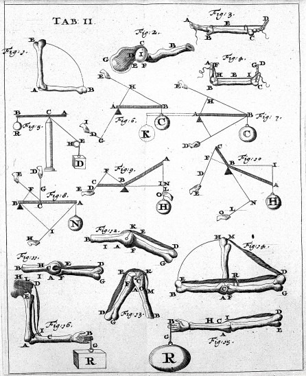 Page sample with illustrations of biomechanical studies.